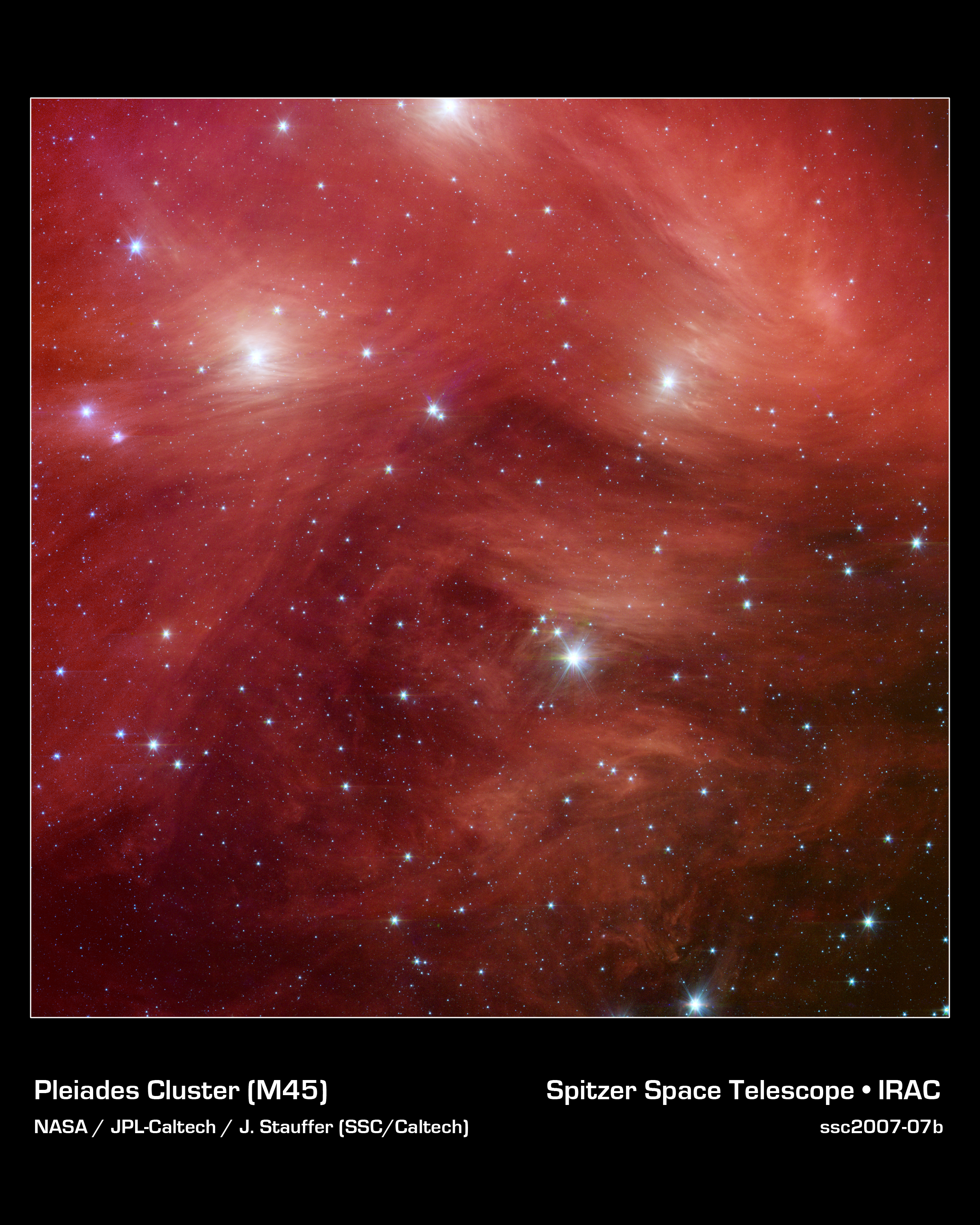 The Seven Sisters, also known as the Pleiades, seem to float on a bed of feathers in a new infrared image from NASA's Spitzer Space Telescope. Clouds of dust sweep around the stars, swaddling them in a cushiony veil. The Pleiades, located more than 400 light-years away in the Taurus constellation, are the subject of many legends and writings. Greek mythology holds that the flock of stars was transformed into celestial doves by Zeus to save them from a pursuant Orion. The 19th-century poet Alfred Lord Tennyson described them as "glittering like a swarm of fireflies tangled in a silver braid." The star cluster was born when dinosaurs still roamed the Earth, about one hundred million years ago. It is significantly younger than our 5-billion-year-old sun. The brightest members of the cluster, also the highest-mass stars, are known in Greek mythology as two parents, Atlas and Pleione, and their seven daughters, Alcyone, Electra, Maia, Merope, Taygeta, Celaeno and Asterope. There are thousands of additional lower-mass members, including many stars like our sun. Some scientists believe that our sun grew up in a crowded region like the Pleiades, before migrating to its present, more isolated home. The new infrared image from Spitzer highlights the "tangled silver braid" mentioned in the poem by Tennyson. This spider-web like network of filaments, colored yellow, green and red in this view, is made up of dust associated with the cloud through which the cluster is traveling. The densest portion of the cloud appears in yellow and red, and the more diffuse outskirts appear in green hues. One of the parent stars, Atlas, can be seen at the bottom, while six of the sisters are visible at top.